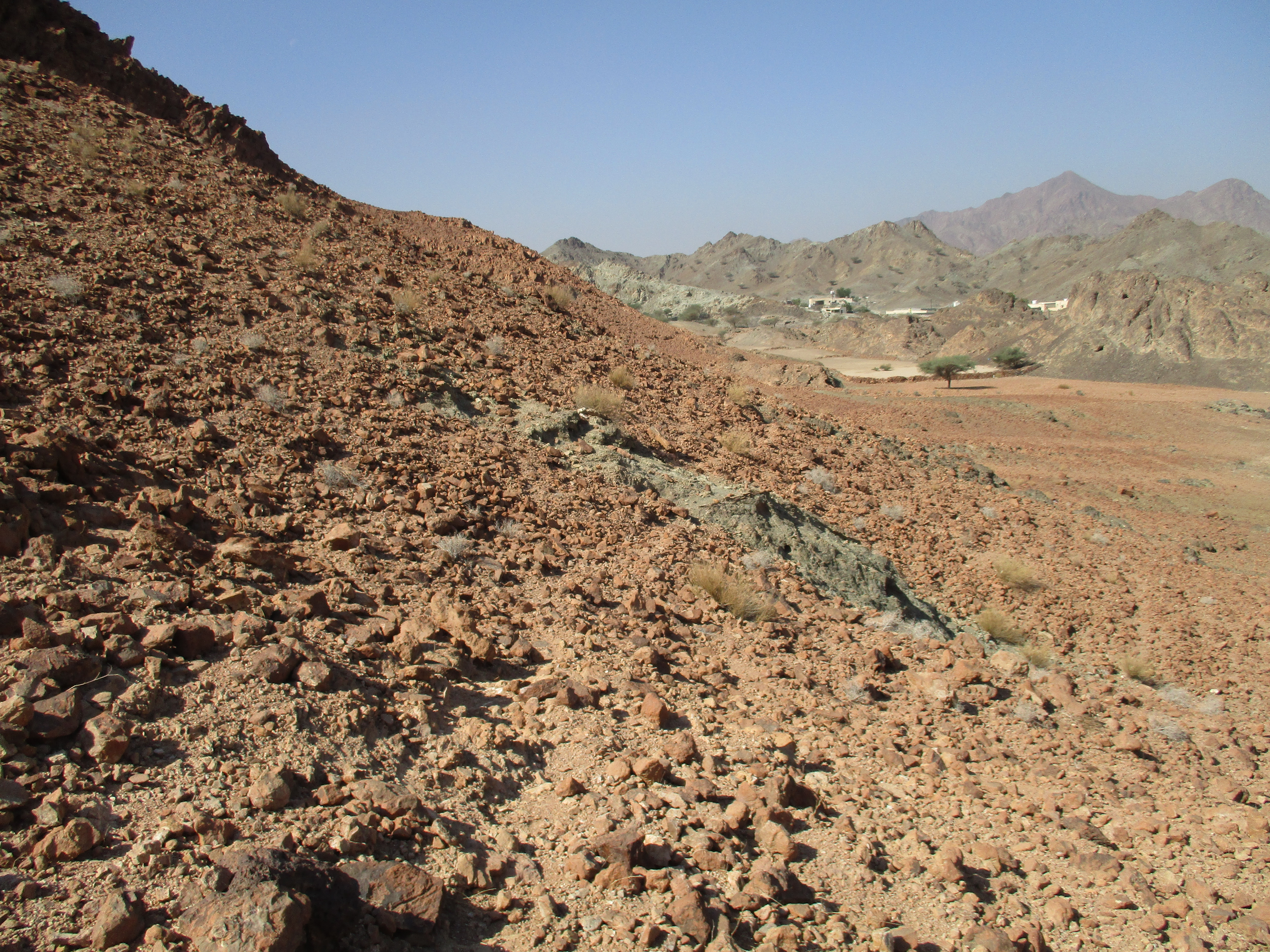 Listwanite outcrop near Sa'al, 25 km, south of Seeb